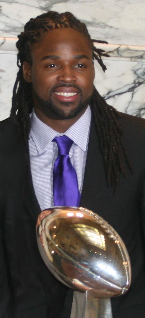 Baltimore Ravens wide receiver Torrey Smith shows off trophy to the Maryland House of Delegates